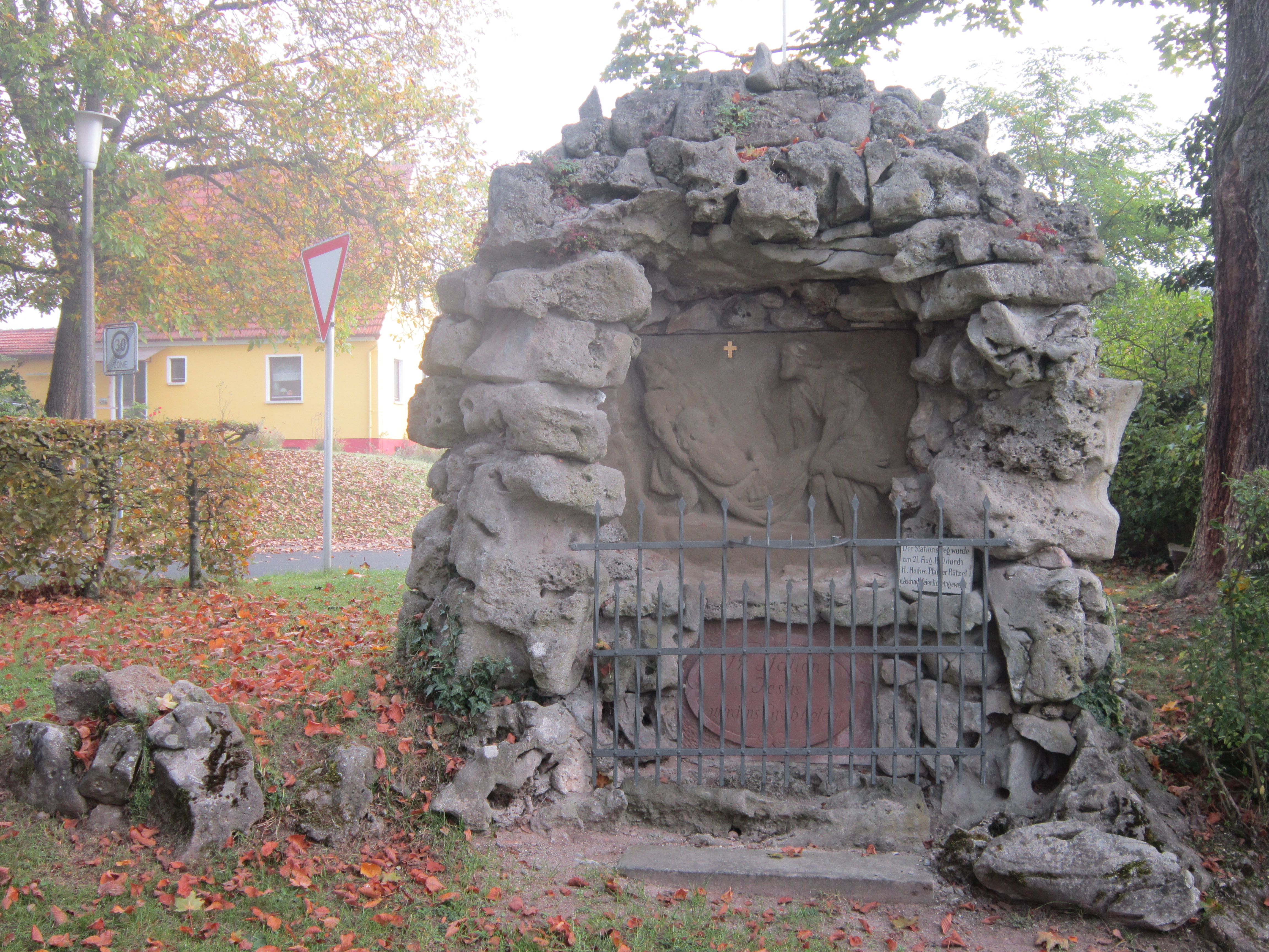 14th station of the Stations of the Cross in Großenbrach, a quarter of the German spa town of Bad Bocklet in Lower Franconia (Bavaria).